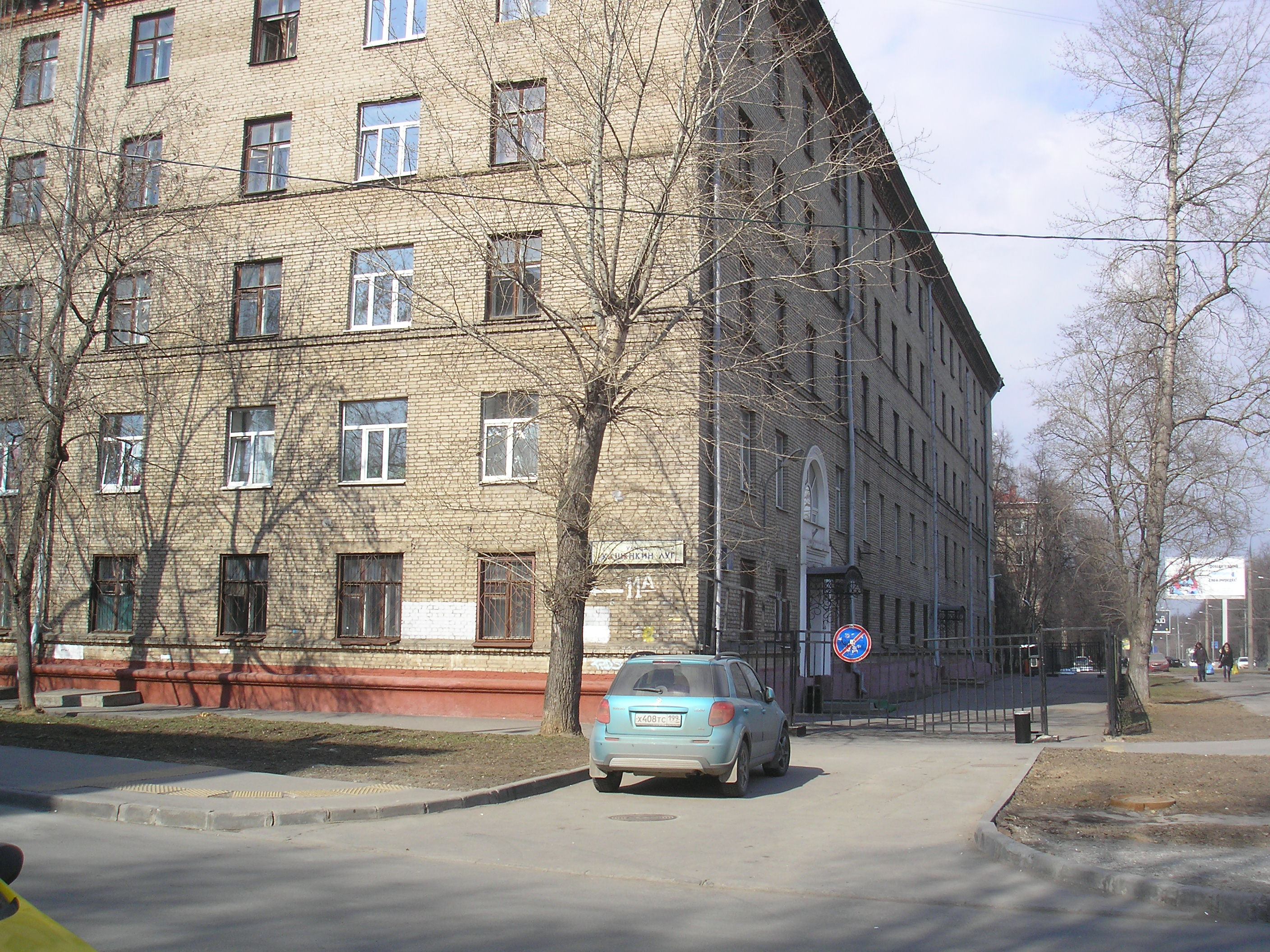 Kashyonkin lug street. Moskva.